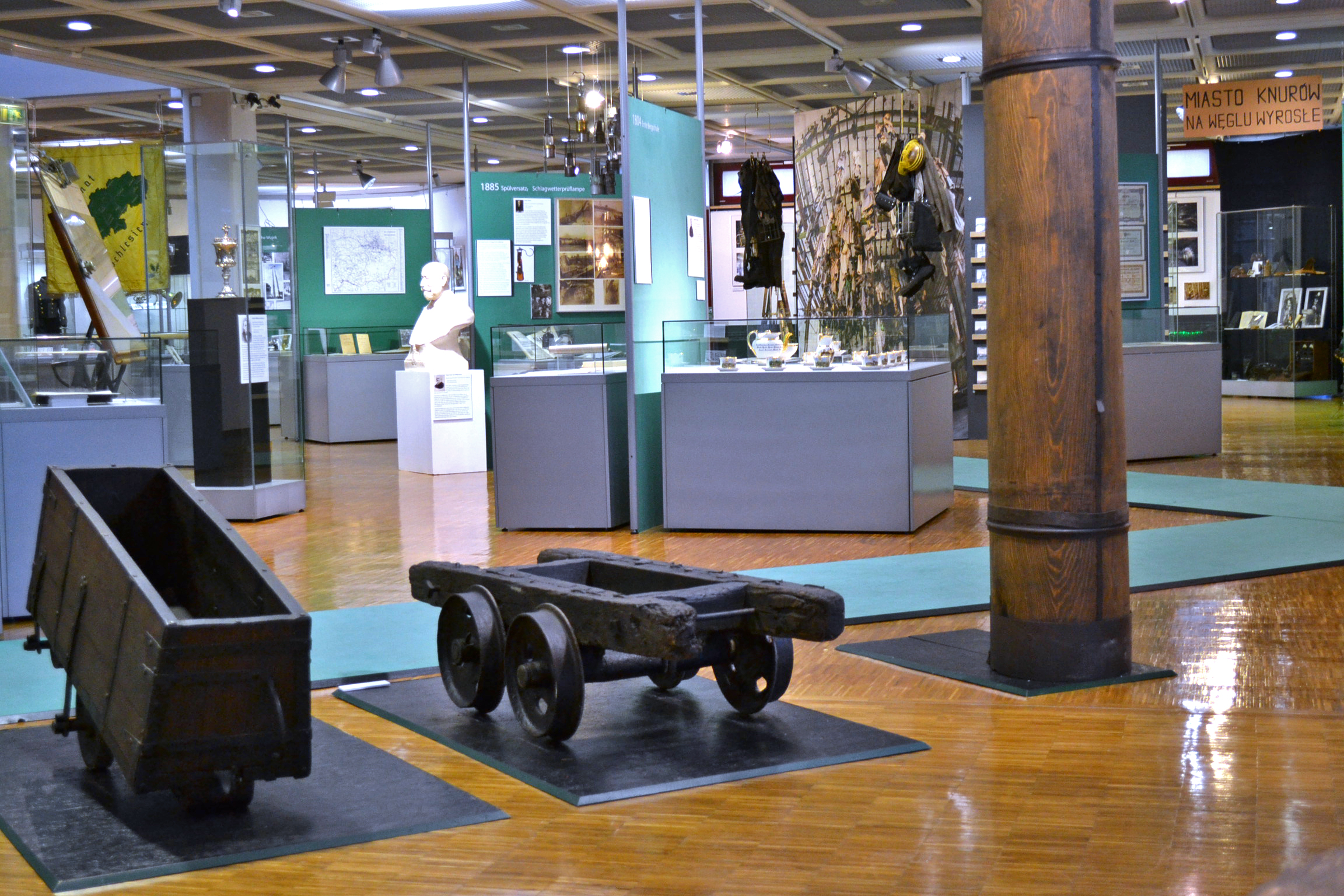 Exhibition of the Upper Silesian State Museum about mining in Silesia.